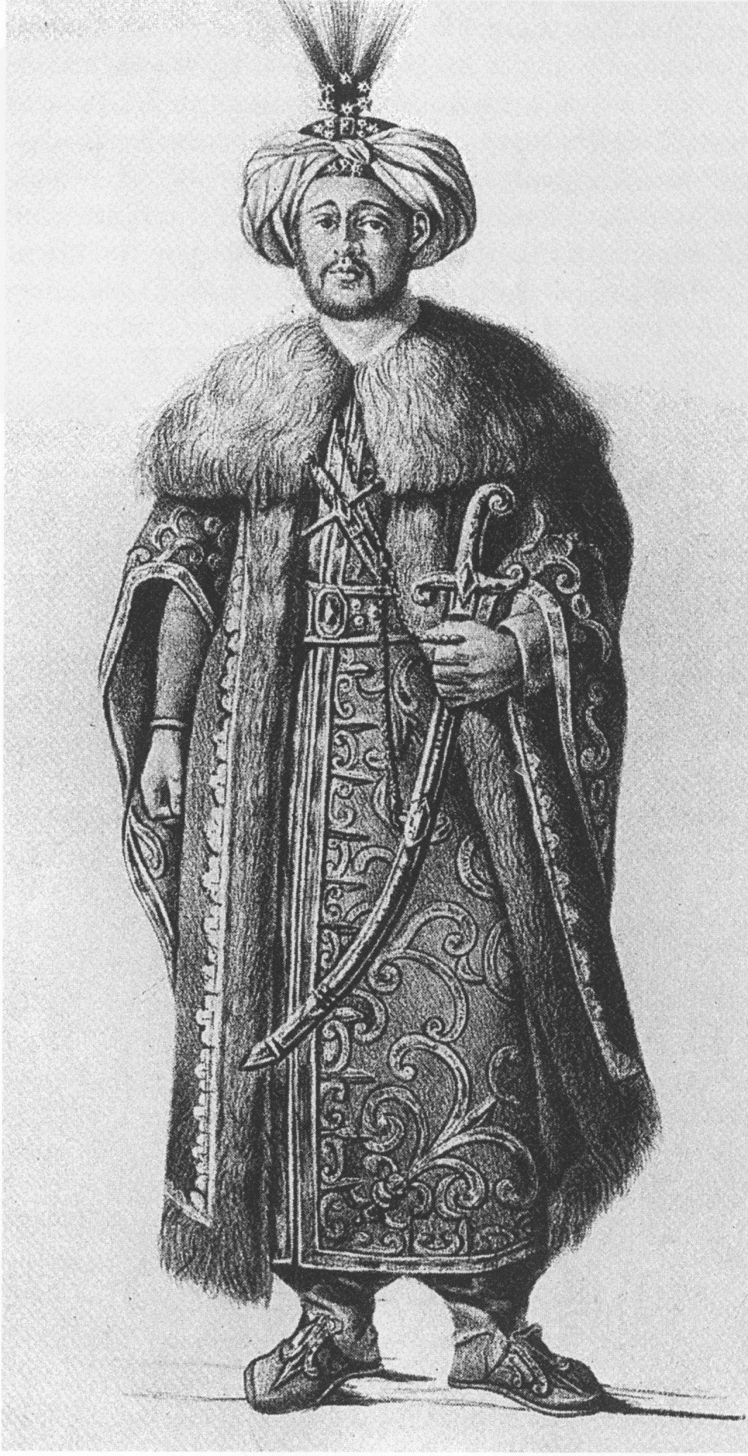 Rossini - Le siège de Corinthe - Filippo Galli as Mahomet - lithograph by Francesco Garzoli - Teatro Apollo - Rome 1830